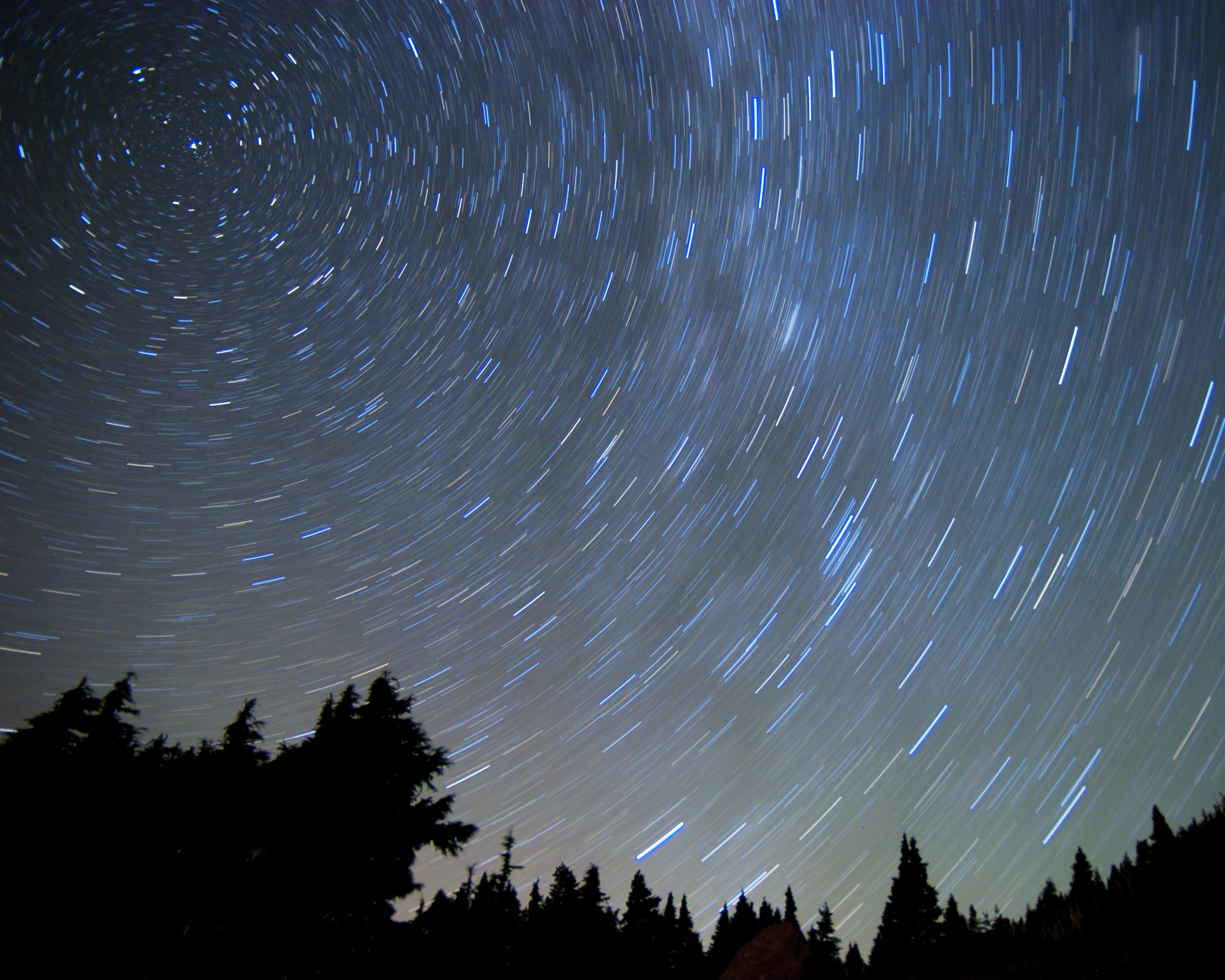 Pictured here is a long exposure photograph of the night sky. In this image the stars appear to streak across the sky. The effect is created as the earth spins along its rotation with the camera fixed to a tripod. Photographing stars present many challenges to the photographer.